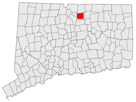 I created this image by modifying Image:US-CT-Enfield.png, which is itself a GNU Licensed file